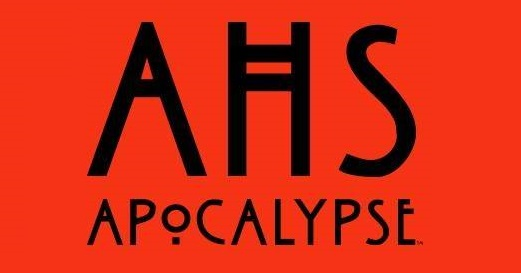 American Horror Story: Apocalypse logo